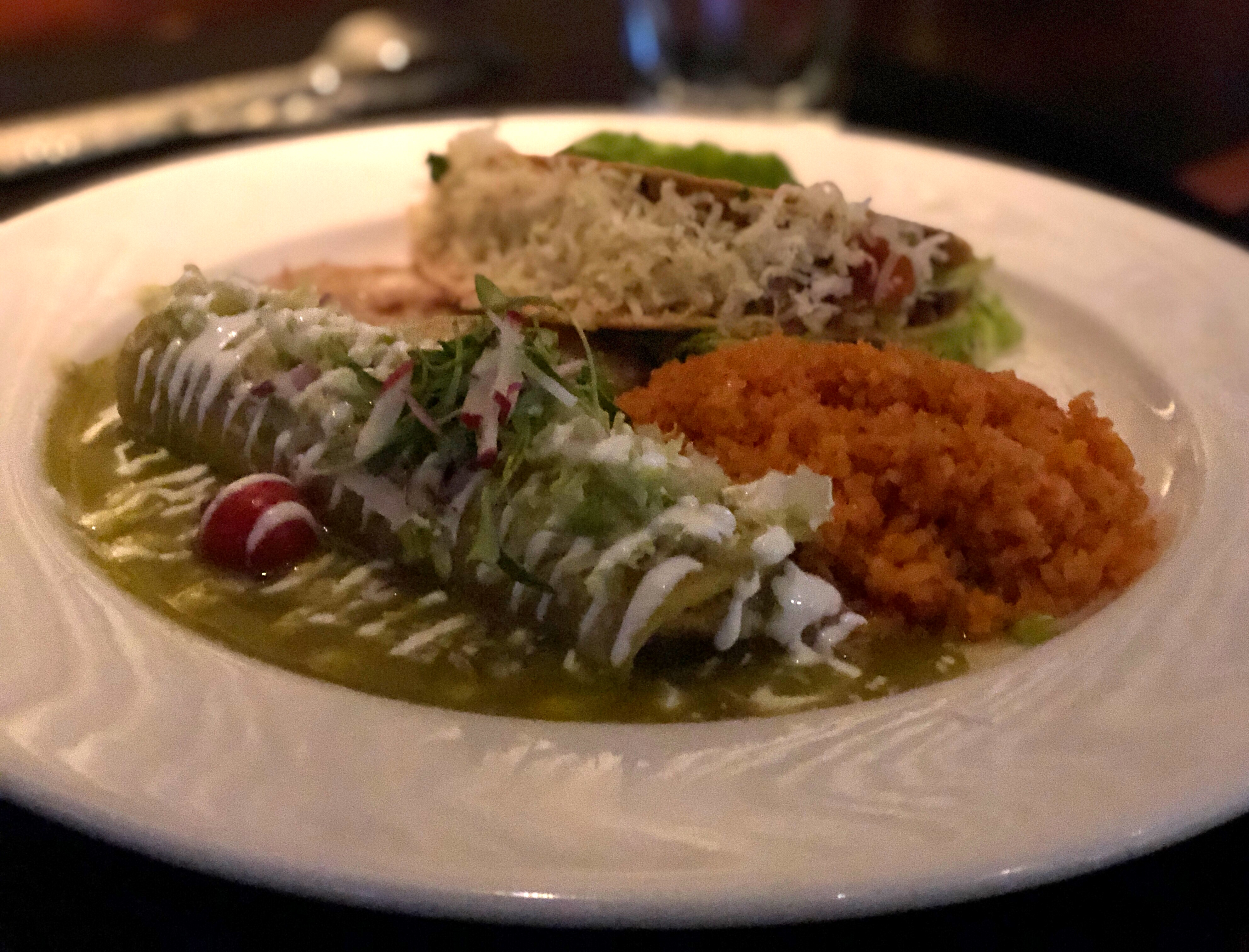 Enchilada and crispy taco with rice and beans at Javier's in Las Vegas, Nevada